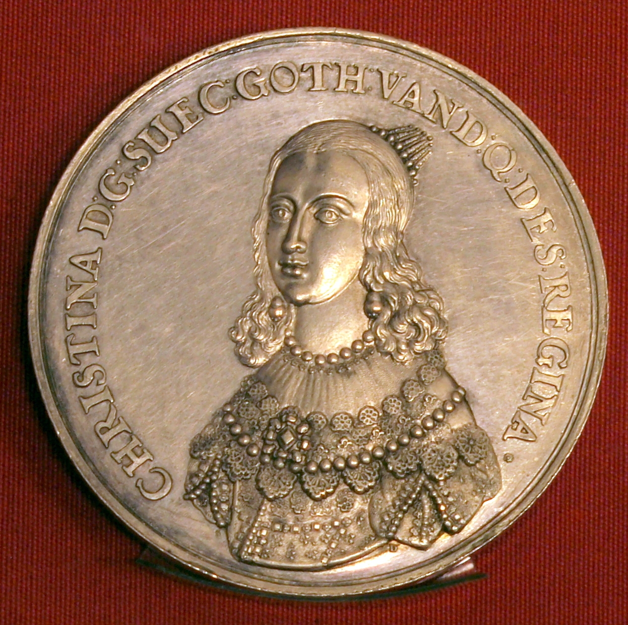 Christina I of Sweden (1626-1689), Queen since 1632.